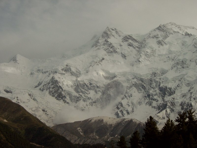 this picture taken just after an avalanche on Nanga Parbat.